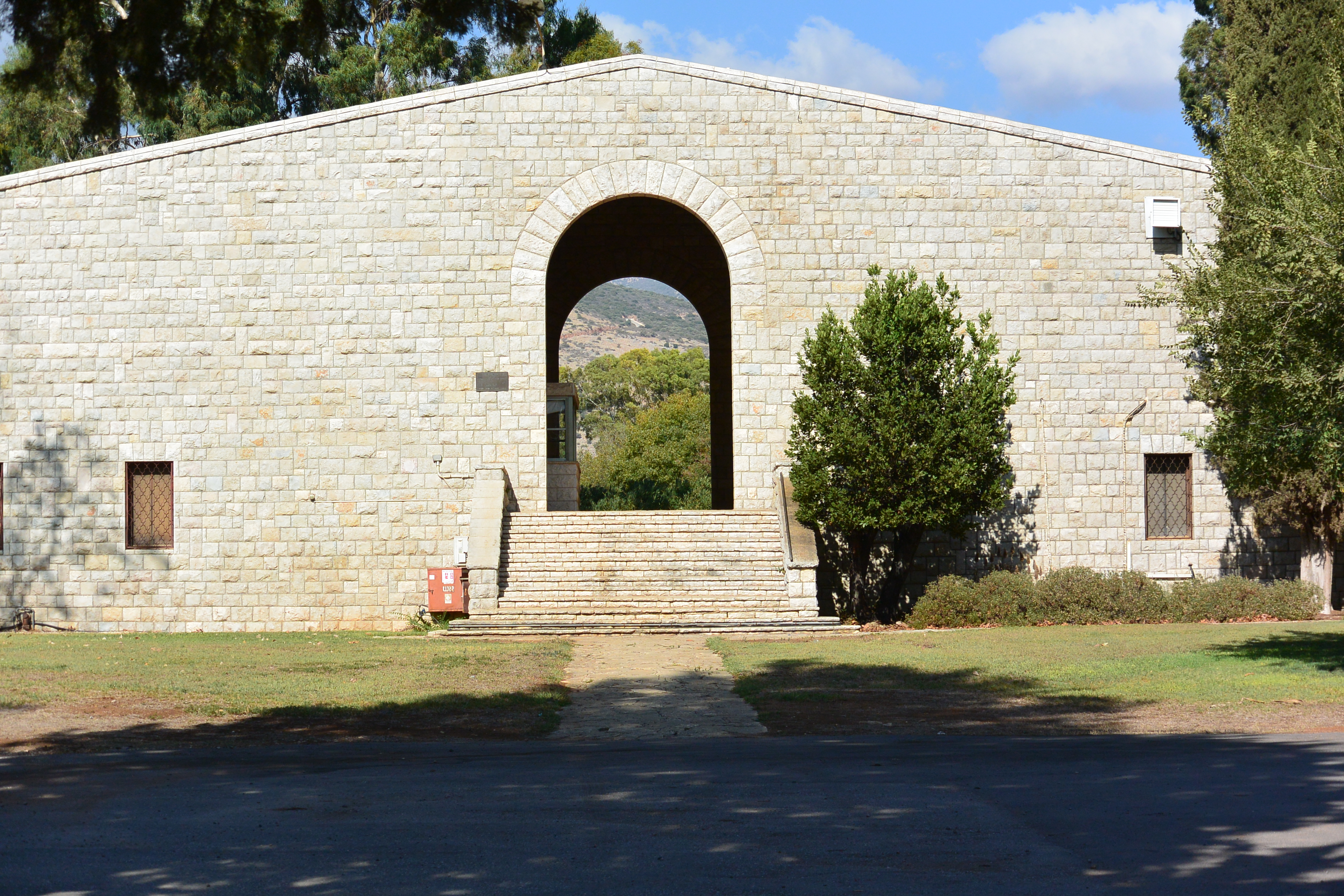 Northeastern fasade of Beit Usishkin Nature Museum in Dan. Behind the museum you can see the bottom of Har Dov.